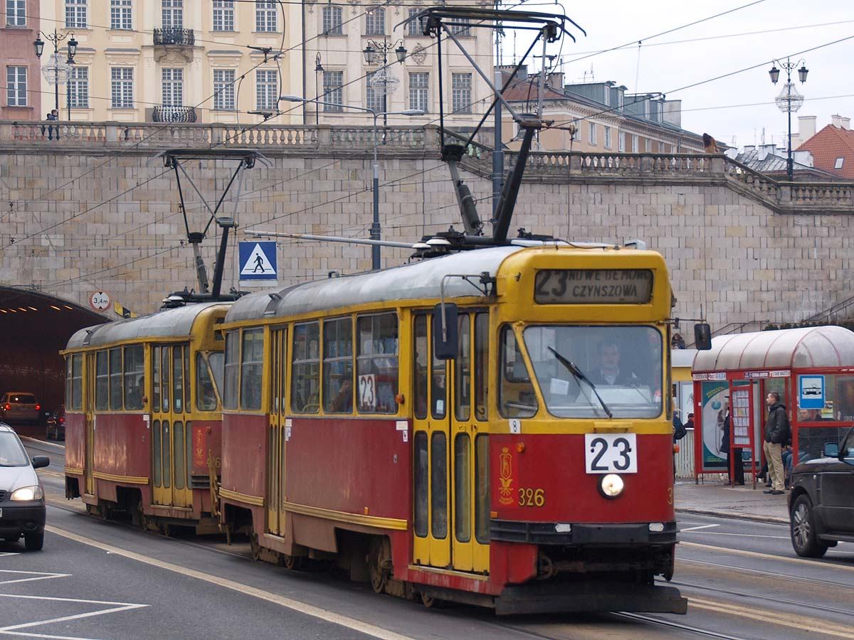 Konstal13N of Warsaw tram. Taken at Stare Miasto stop.